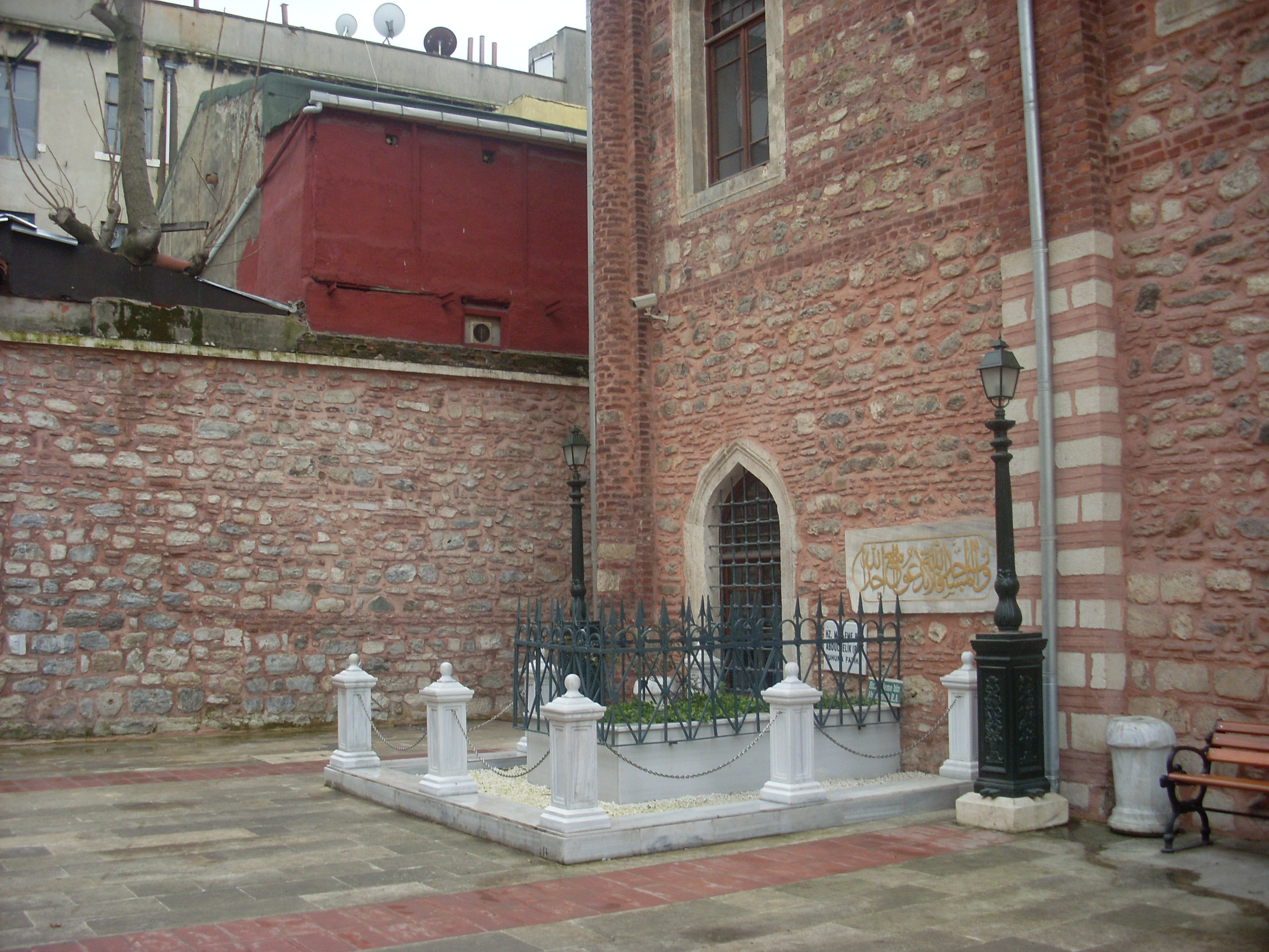 İstanbul - Arap Mosque r3 - Mart 2013